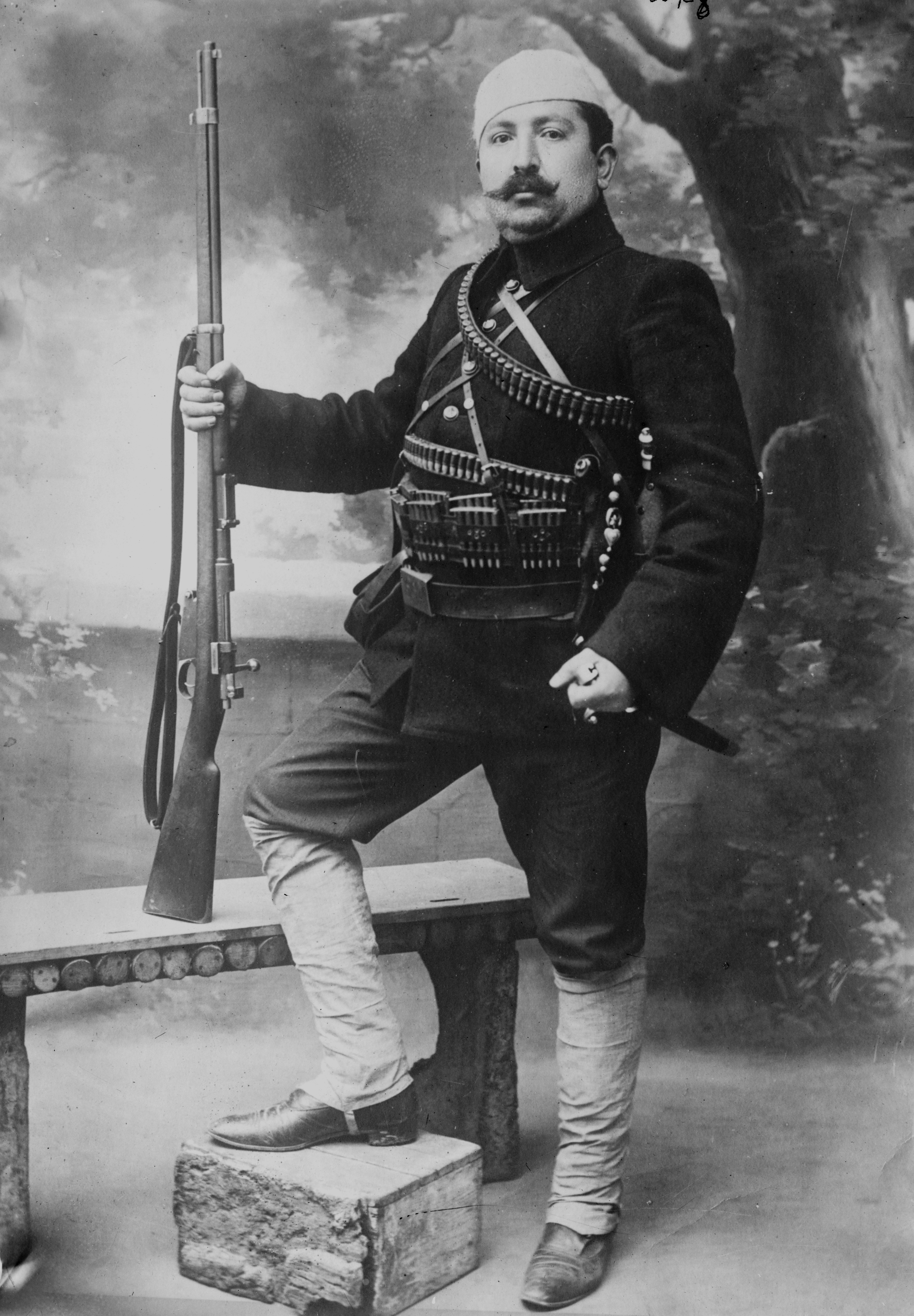 Armenian volunteer soldier, with gun